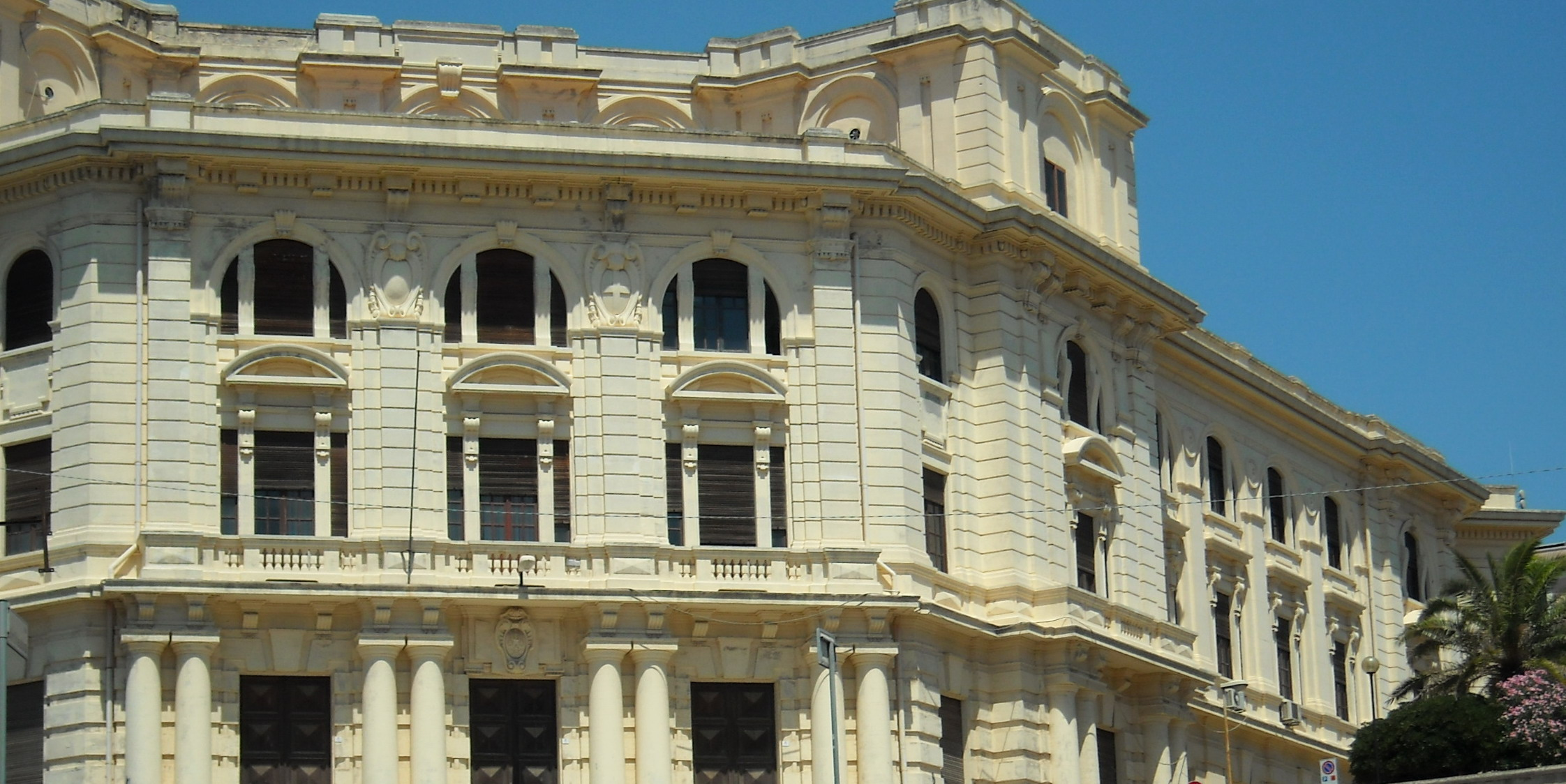 Science palace of Cagliari